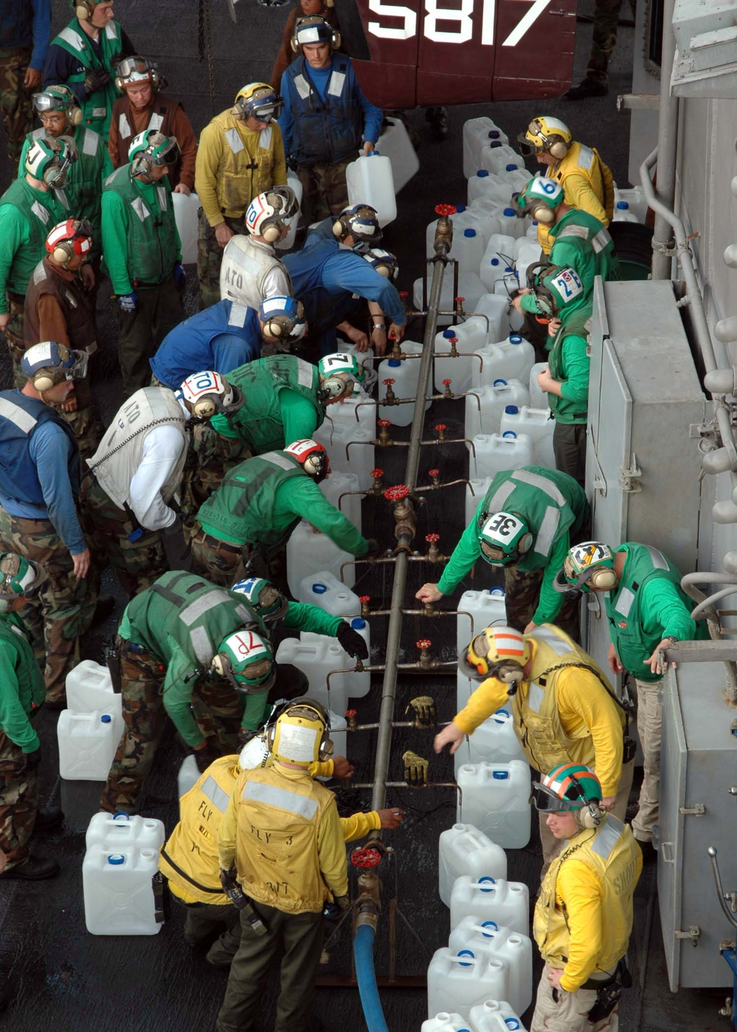 Indian Ocean (Jan. 6, 2005) - Crew members aboard USS Abraham Lincoln (CVN 72) fill jugs with purified water from a Potable Water Manifold. The Repair Division aboard Lincoln constructed the manifold in eight hours. The water jugs will be flown by Navy helicopters to regions isolated by the Tsunami in Sumatra, Indonesia. Helicopters assigned to Carrier Air Wing Two (CVW-2) and Sailors from Abraham Lincoln are supporting Operation Unified Assistance, the humanitarian operation effort in the wake of the Tsunami that struck South East Asia. The Abraham Lincoln Carrier Strike Group is currently operating in the Indian Ocean off the waters of Indonesia and Thailand. U.S. Navy photo by Photographer's Mate Airman Cristina R. Morrison (RELEASED)